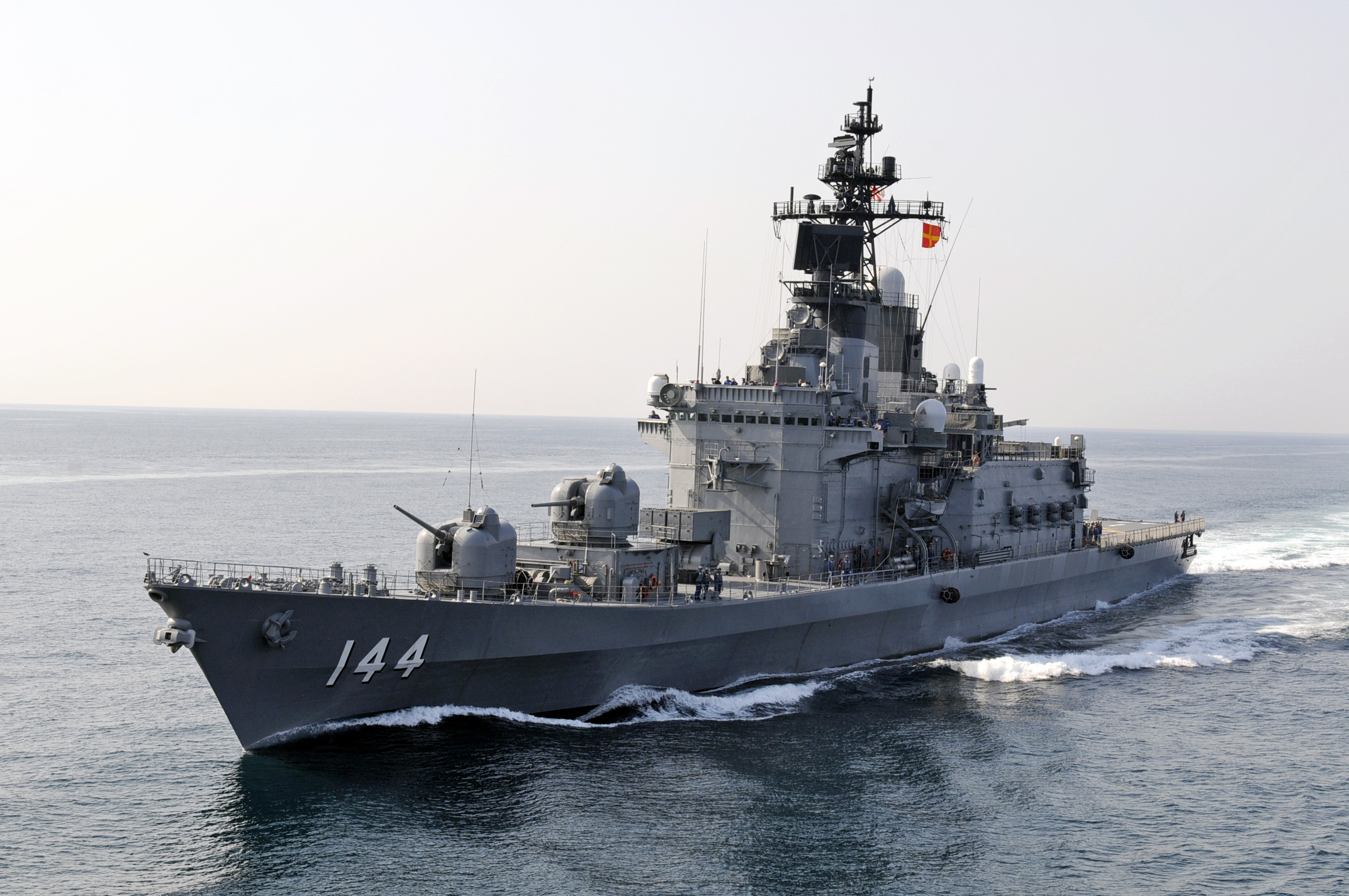 PACIFIC OCEAN (April 29, 2009) The Japan Maritime Self-Defense Force destroyer JDS Kurama (DDH 144) pulls alongside amphibious command ship USS Blue Ridge (LCC 19) during Exercise Malabar 2009, an annual exercise led by the Indian Navy. (U.S. Navy photo by Mass Communication Specialist 3rd Class Daniel Viramontes/Released)